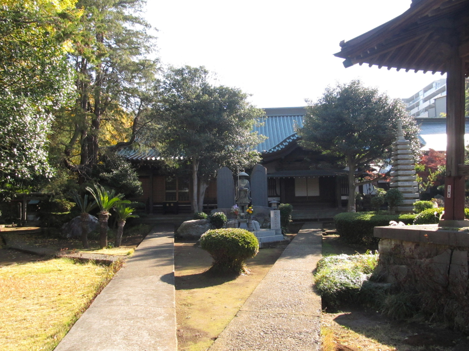 Kannō-in's Main Hall in Fujisawa City, Kanagawa Prefecture, Japan